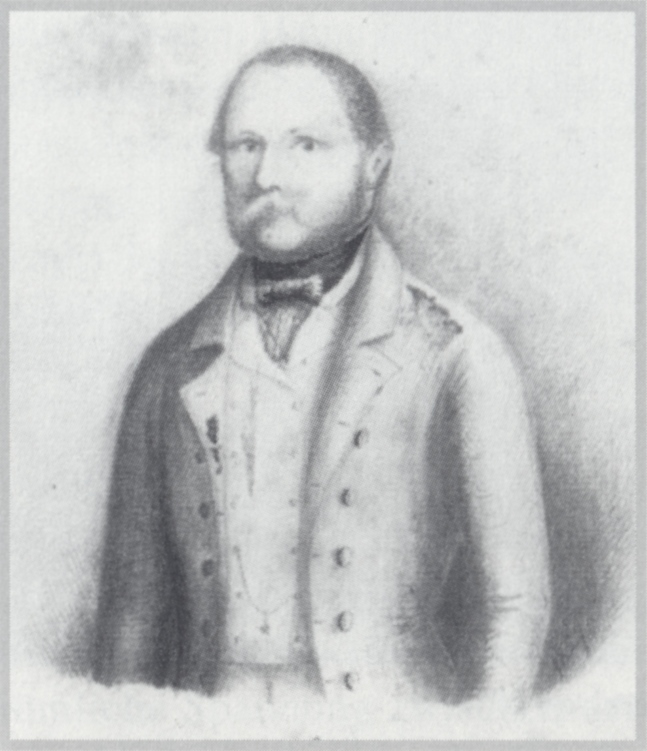 Hütteninspector Wilhelm Castendyck (1824 - 1895)